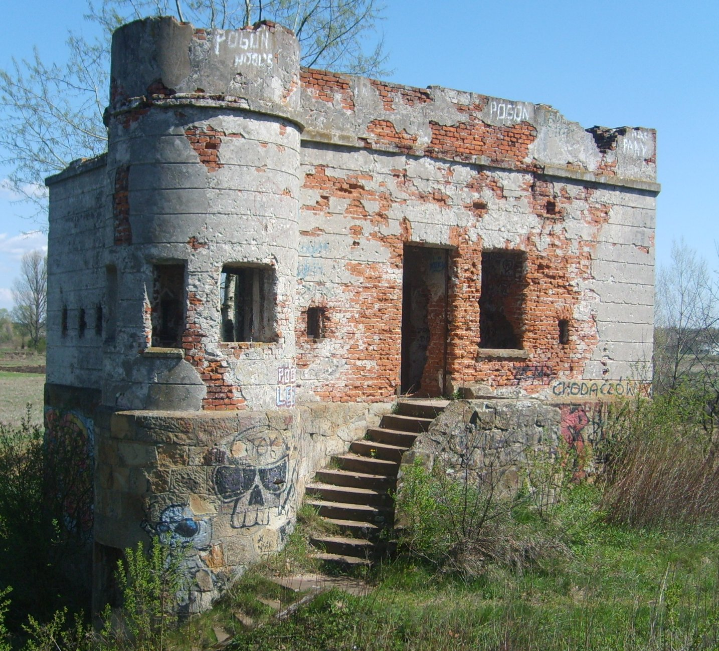 the so-called Wachhaus in Tryncza/Poland, an old military facility